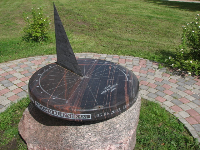 Sun clock in front of the St. Catherine Lutheran church of Valka, Latvija